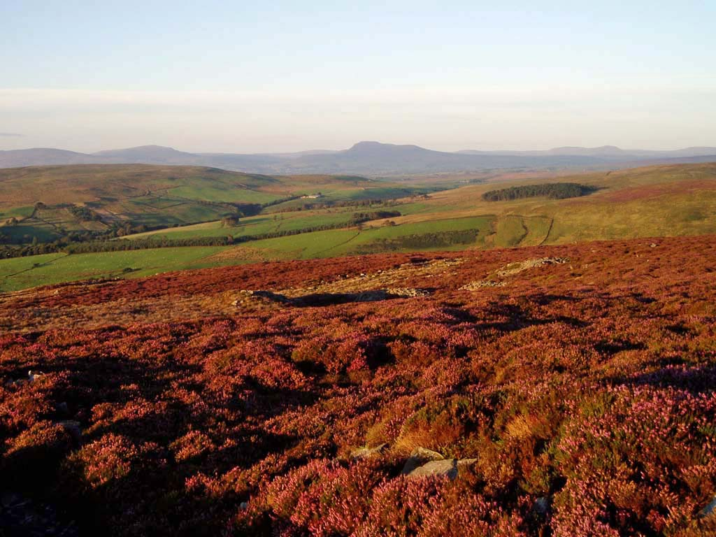 Heather moorland on Clougha, Forest of Bowland, Lancashire, England